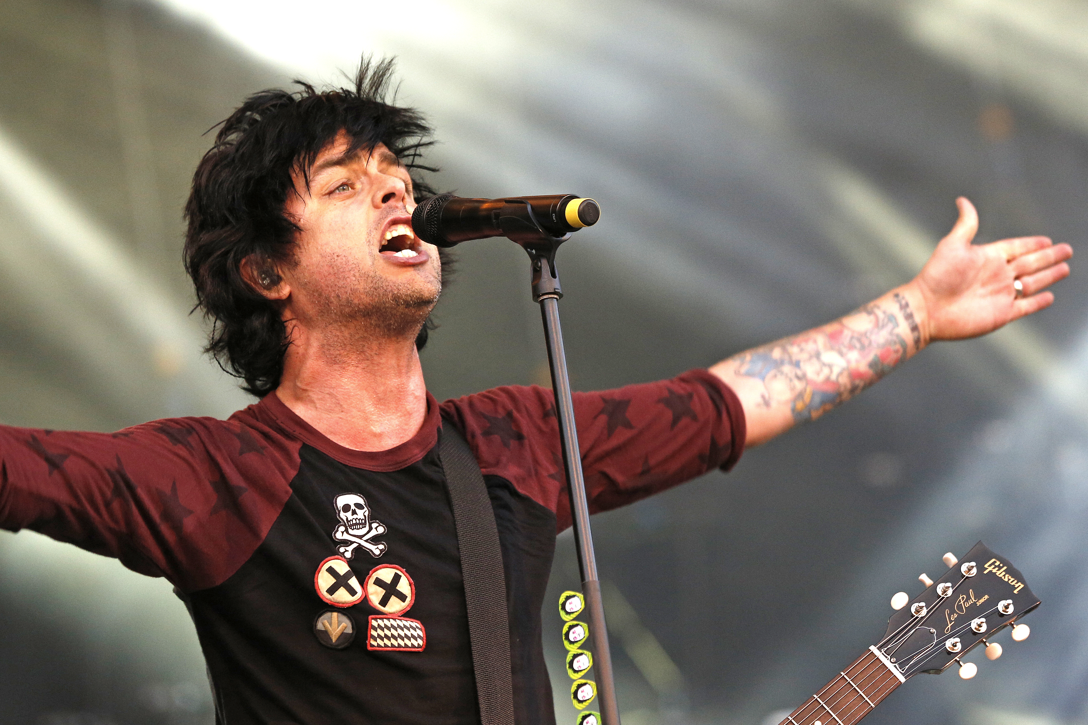 Billie Joe Armstrong, singer and guitarist of Green Day, stands on the Center Stage of Rock im Park-Festival 2013.